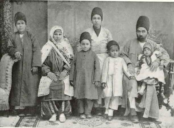 A family of Ahura Mazda-worshipers: Tehran